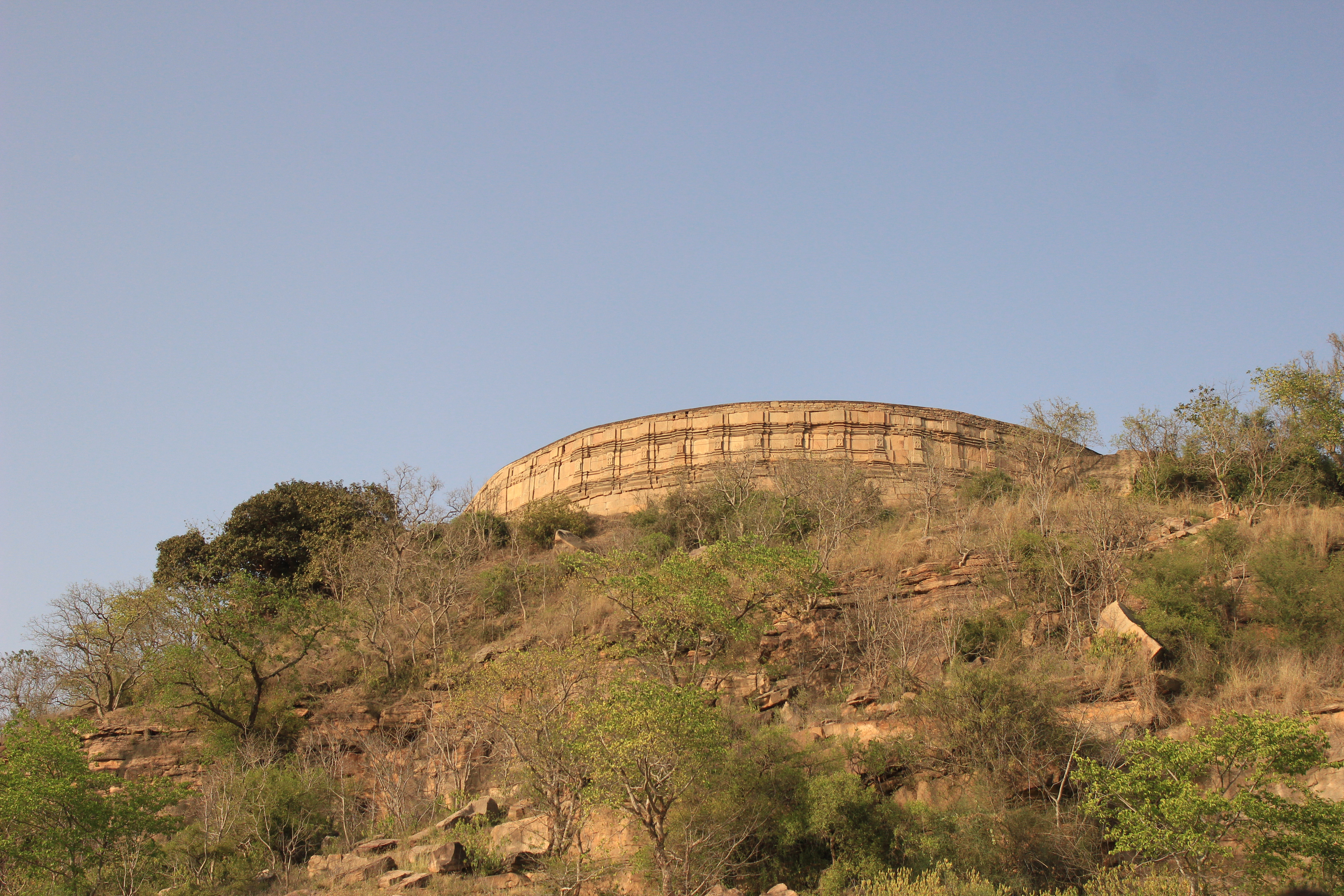 Located on a hill in Morena it is a rare Chausath Yogini Temple